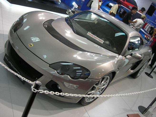 Lotus Europa S concept, taken at the 2006 Kuala Lumpur International Motorshow.